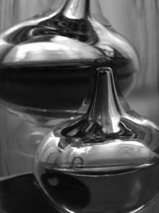 Summary Author: Marko Meza